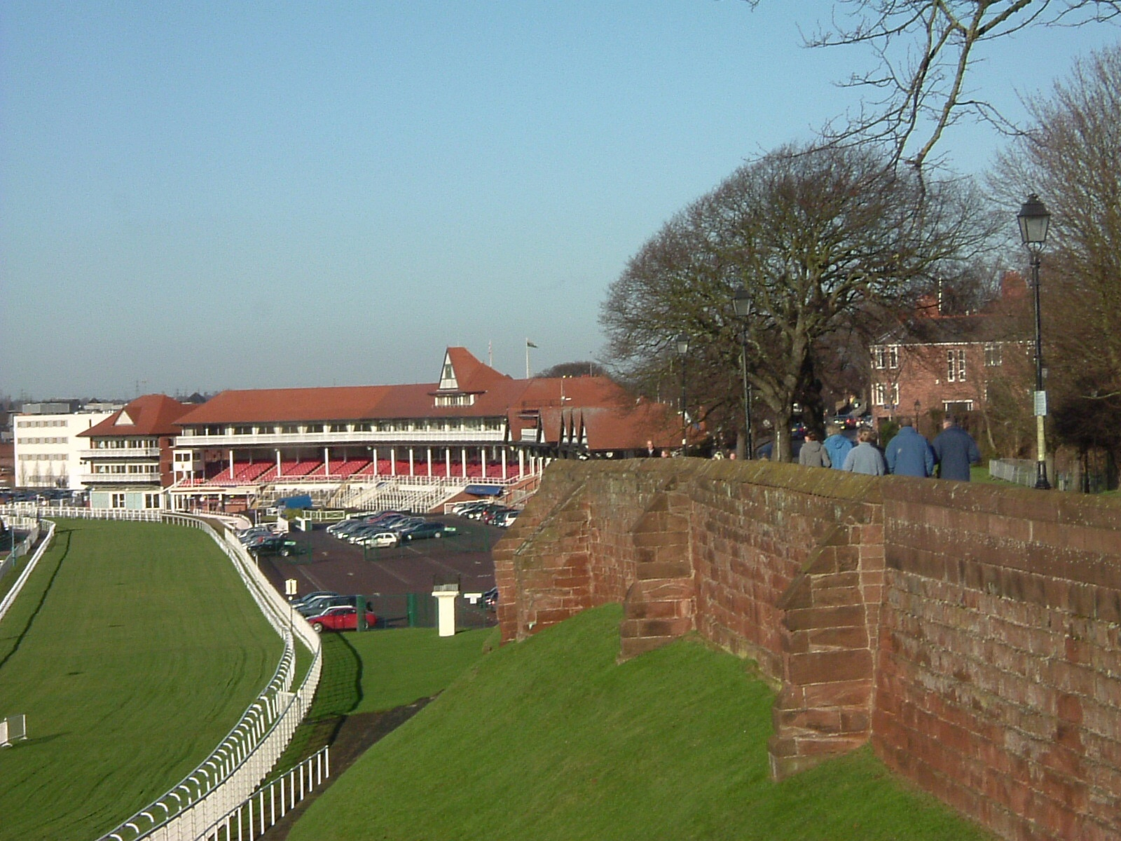 A view of Chester Racecourse from the City walls. Taken by Smurrayinchester.